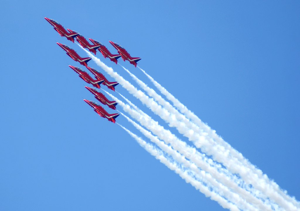 Red Arrows - Open Dagen Volkel 2009